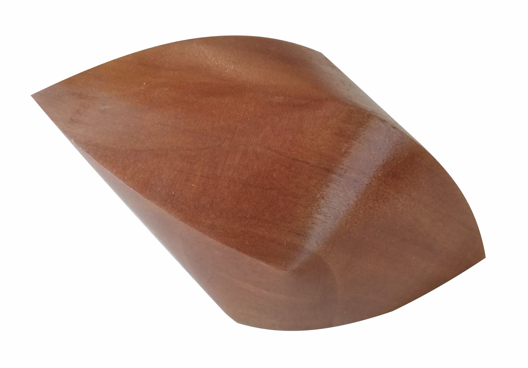 A wooden model of the hexacon.